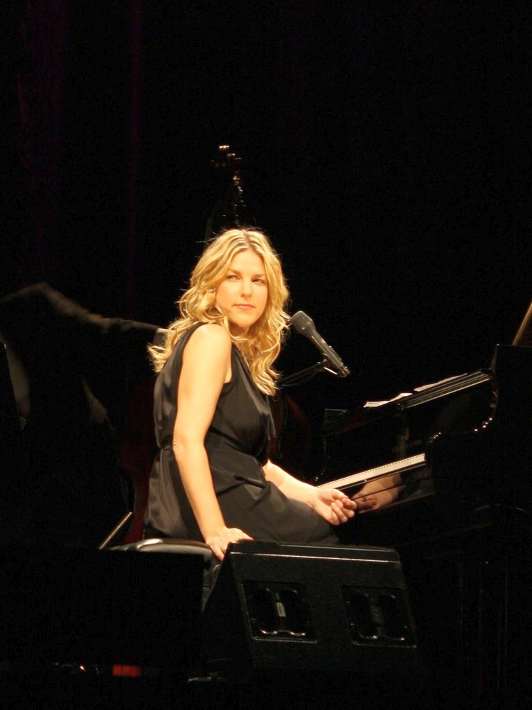 Jazz pianist Diana Krall at a concert in Cologne, Germany